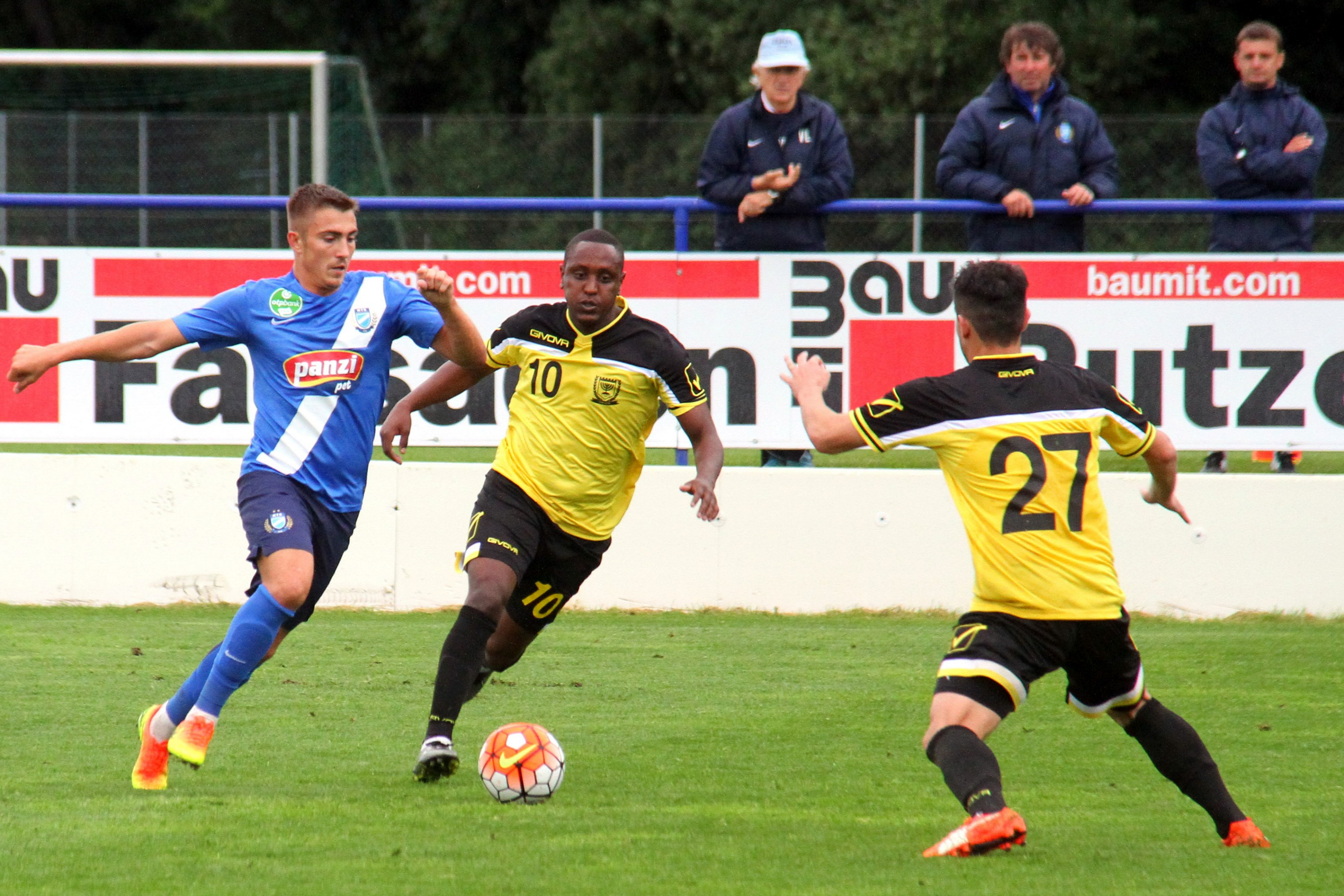 Friendly match between Beitar Jerusalem F.C. (yellow shirts) and MTK Budapest FC (blue shirts) at 2016-06-18 in Bad Erlach (Austria. – The photo shows from left to right Dávid Jakab, Dani Preda and an unknown player.